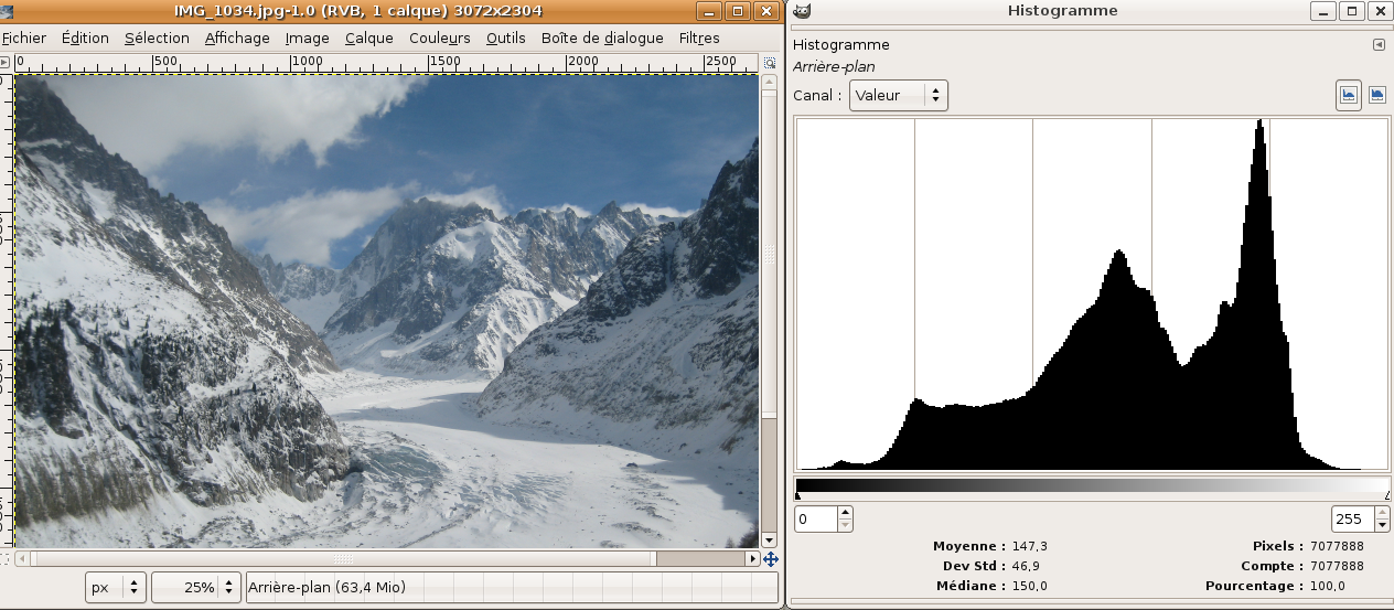 Image and its histogram, made with gimp